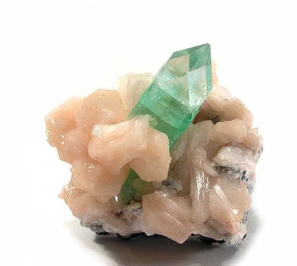 Apophyllite, Stilbite Locality: Bombay Quarry, Mumbai District (Bombay District), Maharashtra, India (Locality at ) Emanating from a wreath of lustrous, cream colored, stilbite crystals, to 3.5 cm across, is a spear shaped, pristine, and transparent, light emerald green, fluorapophyllite crystal. The length of the fluorapophyllite crystal is 6.5 cm in length and it exhibits very good luster. The termination is RAZORsharp! This is more than just a very nice combo specimen - it is truly top shelf! Despite as many as I have seen, I was blown away by this one. This is an older piece obtained some 20 years ago at the Pandulena Hills Quarry, and sold only recently from the Bill and Elizabeth Moller collection. 7.6 x 6.6 x 2.9 cm